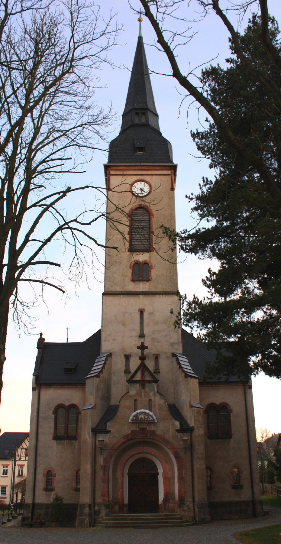 Neuwelt (Schwarzenberg/Erzgeb.): Church.